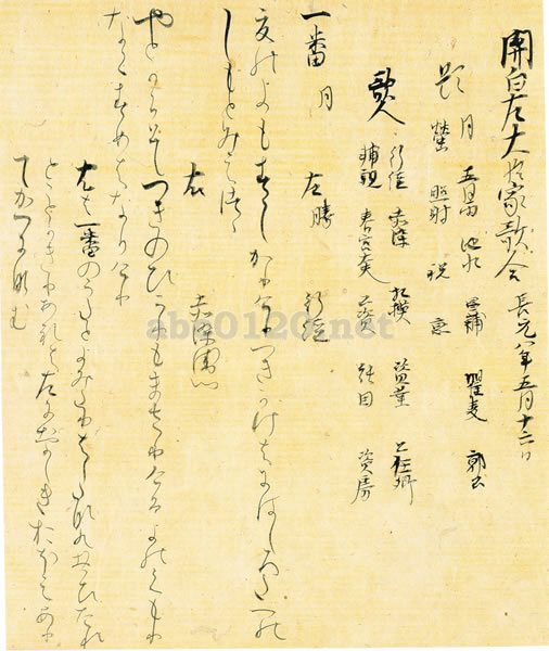 Poetry Match on Related Themes (類聚歌合, Ruijū utaawase)